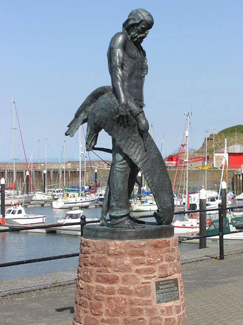 The statue of the Ancient Mariner at Watchet, Somerset, England. The statue was unveiled in September 2003, as a tribute to Samuel Taylor Coleridge. The sculptor was Alan B Herriot of Penicuik, Scotland. Coleridge lived in the nearby village of Nether Stowey, about 10 miles from this statue. In 1797, while on a walking tour, Coleridge visited Watchet. On seeing the harbour, it is believed he was inspired to compose The Rime of the Ancient Mariner. Extract from poem: Ah ! well a-day ! what evil looks Had I from old and young ! Instead of the cross, the Albatross About my neck was hung.